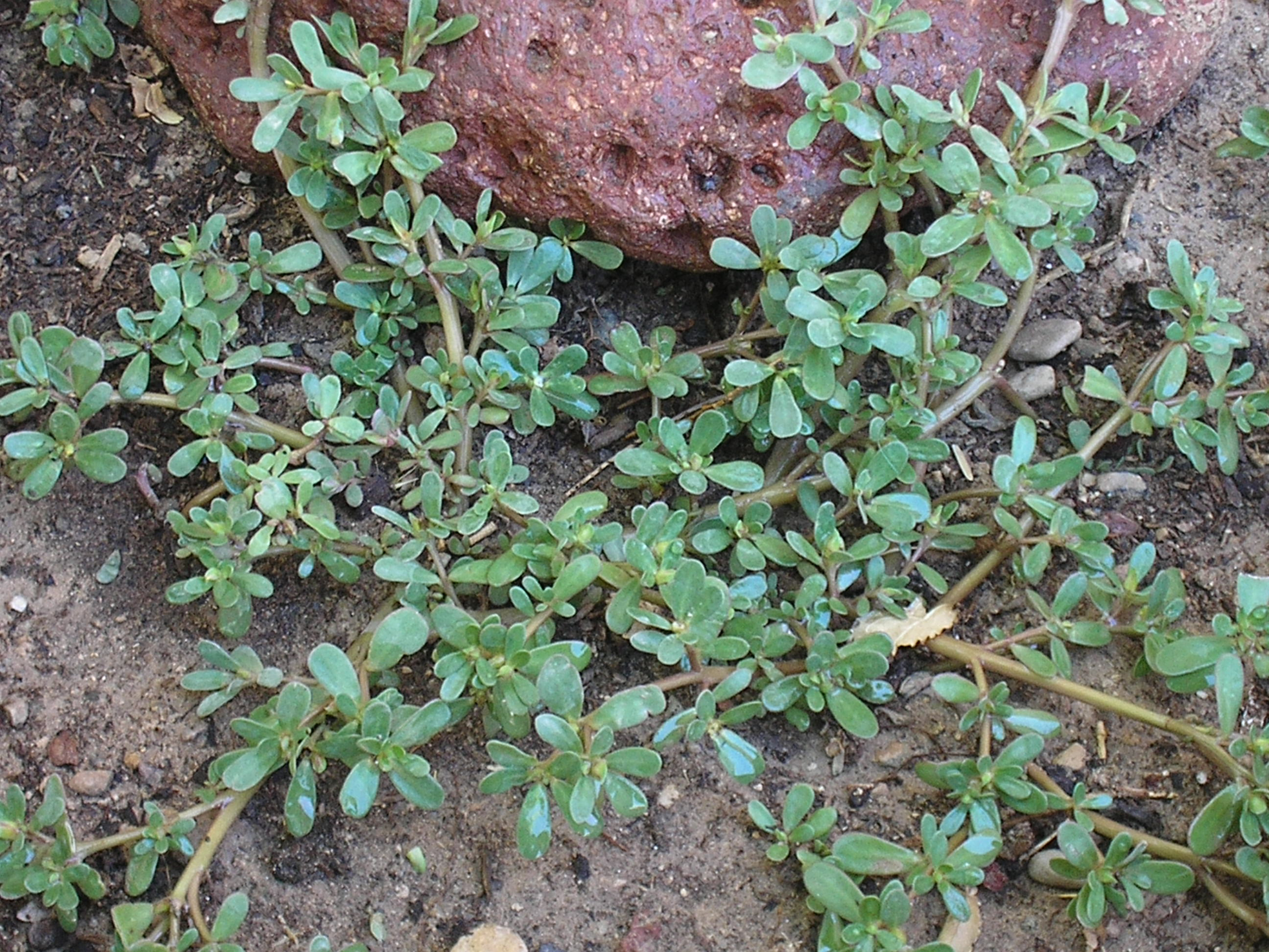 Photo of Portulaca oleracea in a landscape